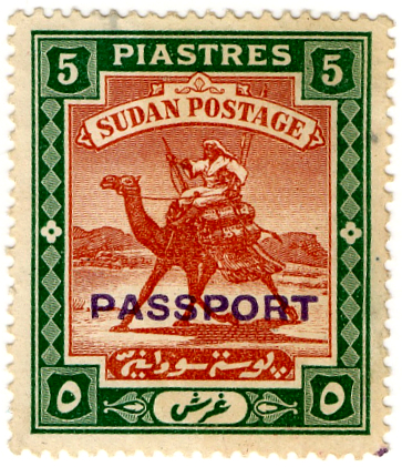 Sudan postage stamp overprinted for passports revenue use. Original camel postman design first used 1898.